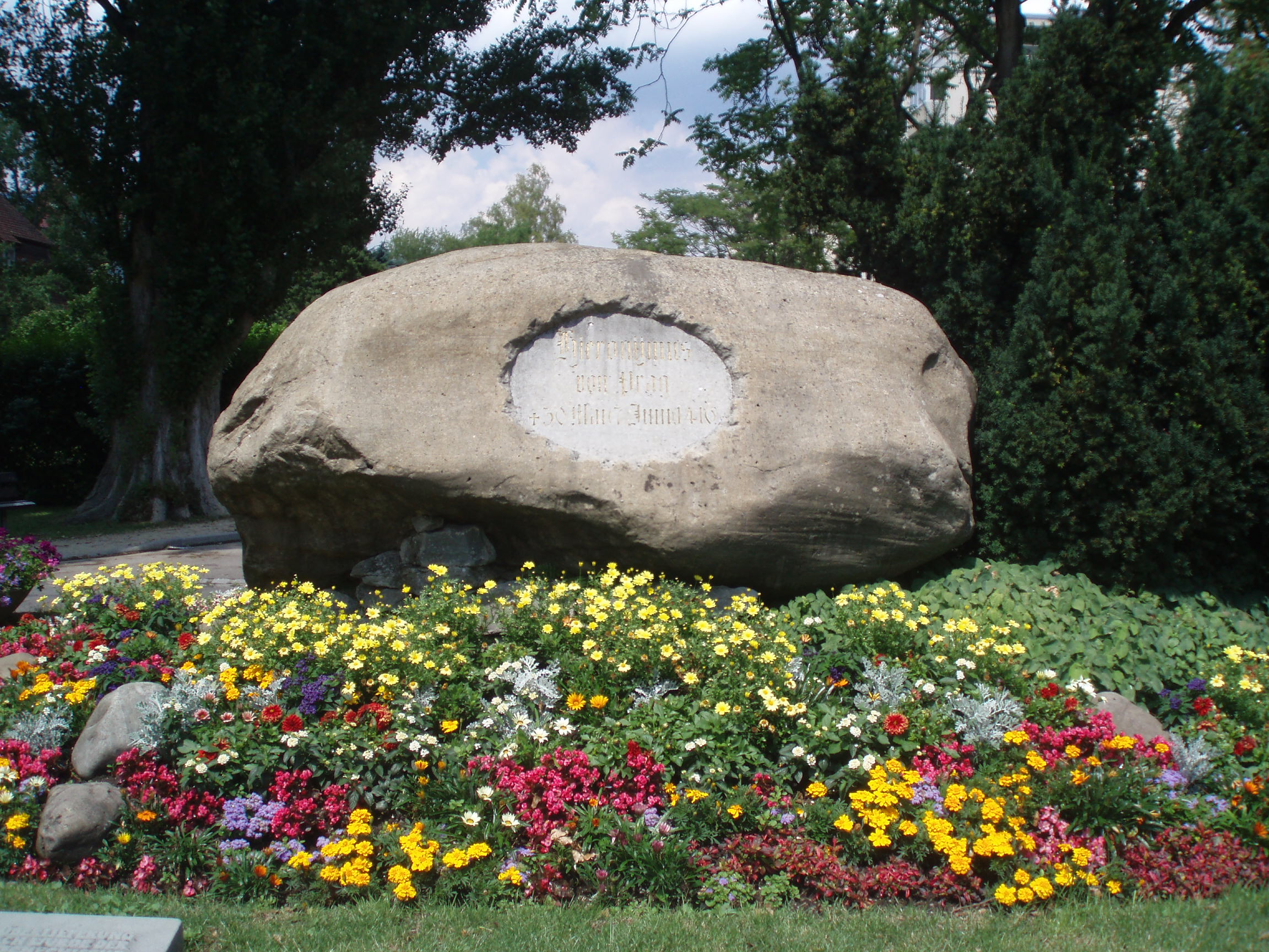 Konstanz - "Hussenstein". This erratic block marks the place in Konstanz, where reformer Jan Hus was executed because of his religious belief